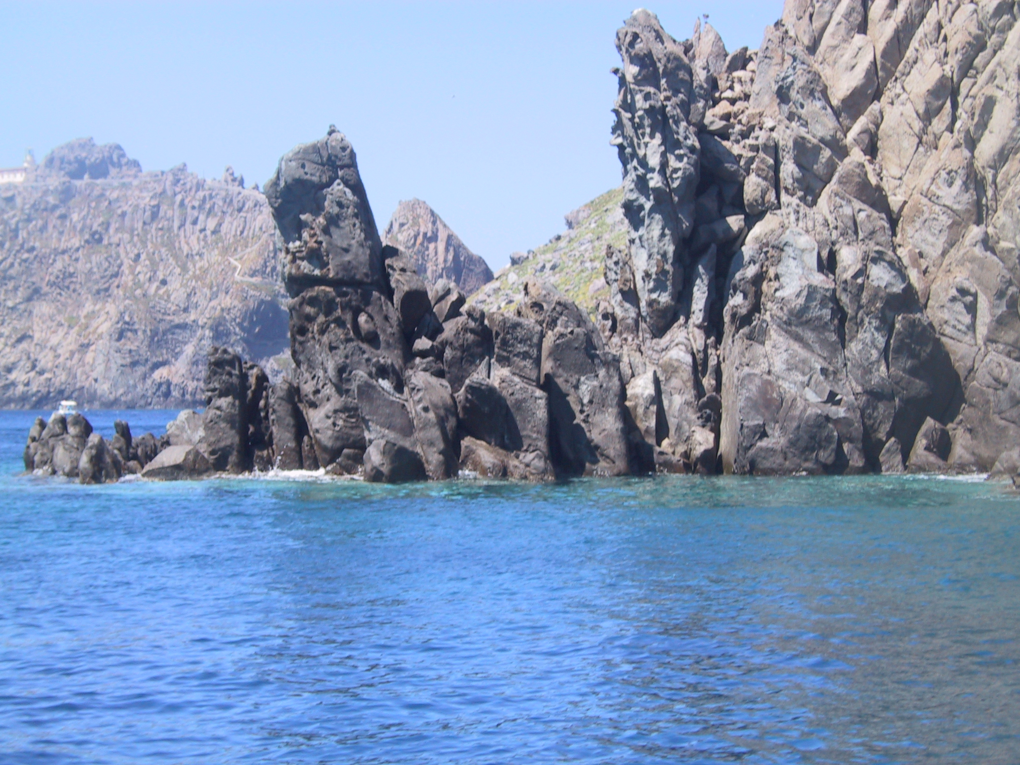 Tall rock in Ponza.